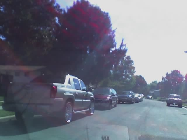 A typical side street